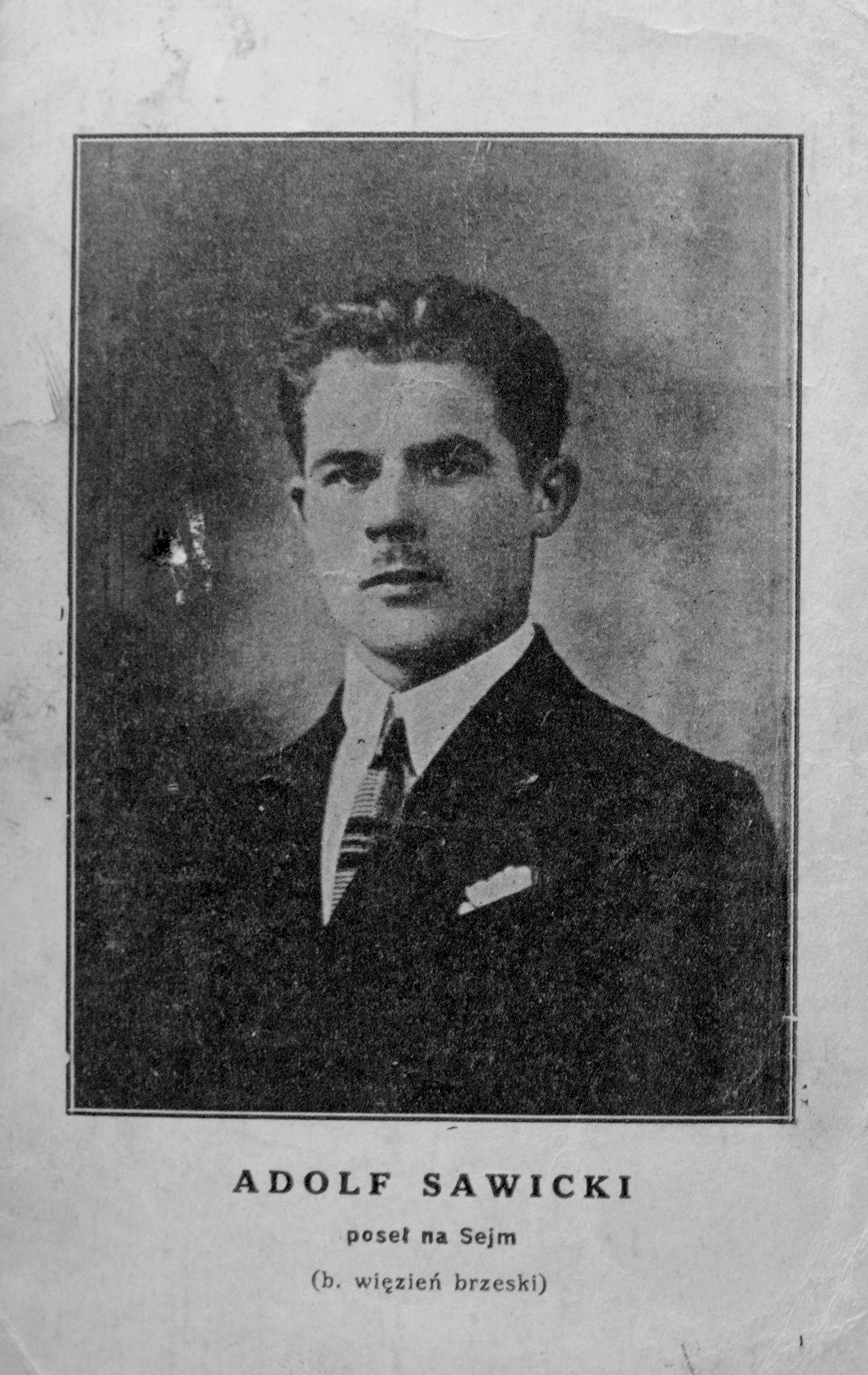 Zdjęcie Adolfa Sawickiego z albumu rodziny Sawickich, autor nieznany.